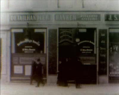 Screenshot from the 1907 film Københavnerbilleder (Pictures of Copenhagen) directed by Peter Elfelt. Filial of Detailhandler-Banken in Østerbro, probaby at Trianglen.